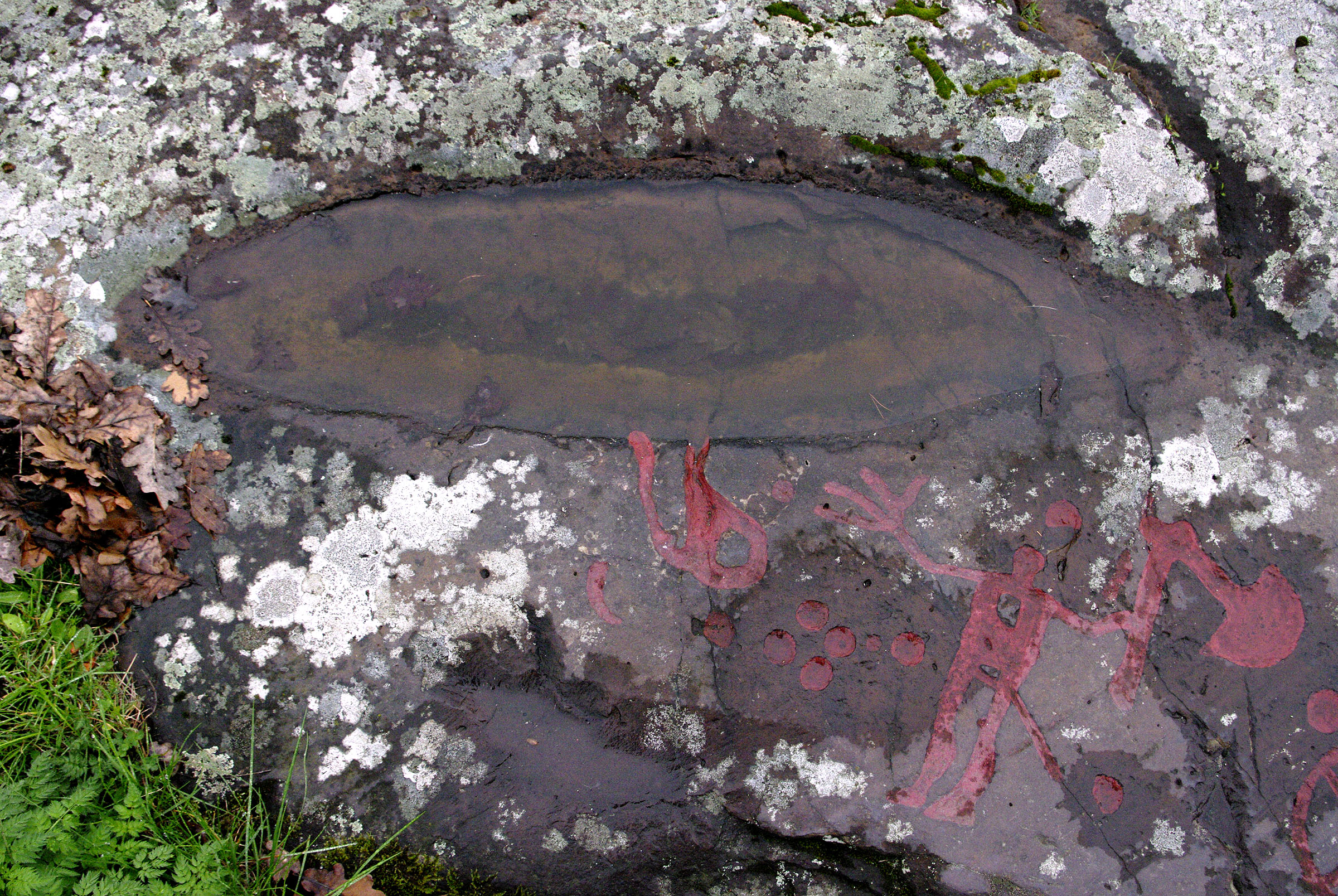 Rock carvings from bronzeage about 1000 B.C. from Flyhov, Sweden.